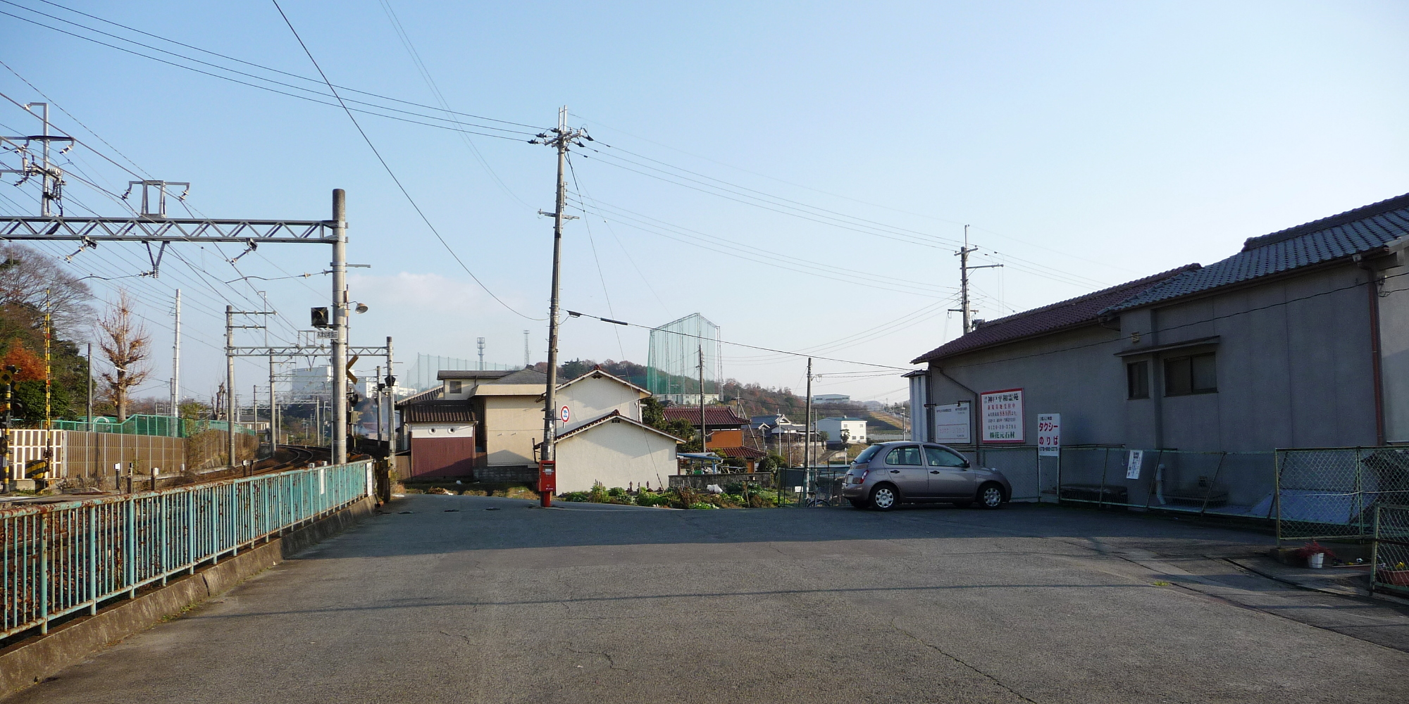 Kobe Electric Railway Kobata Station plaza